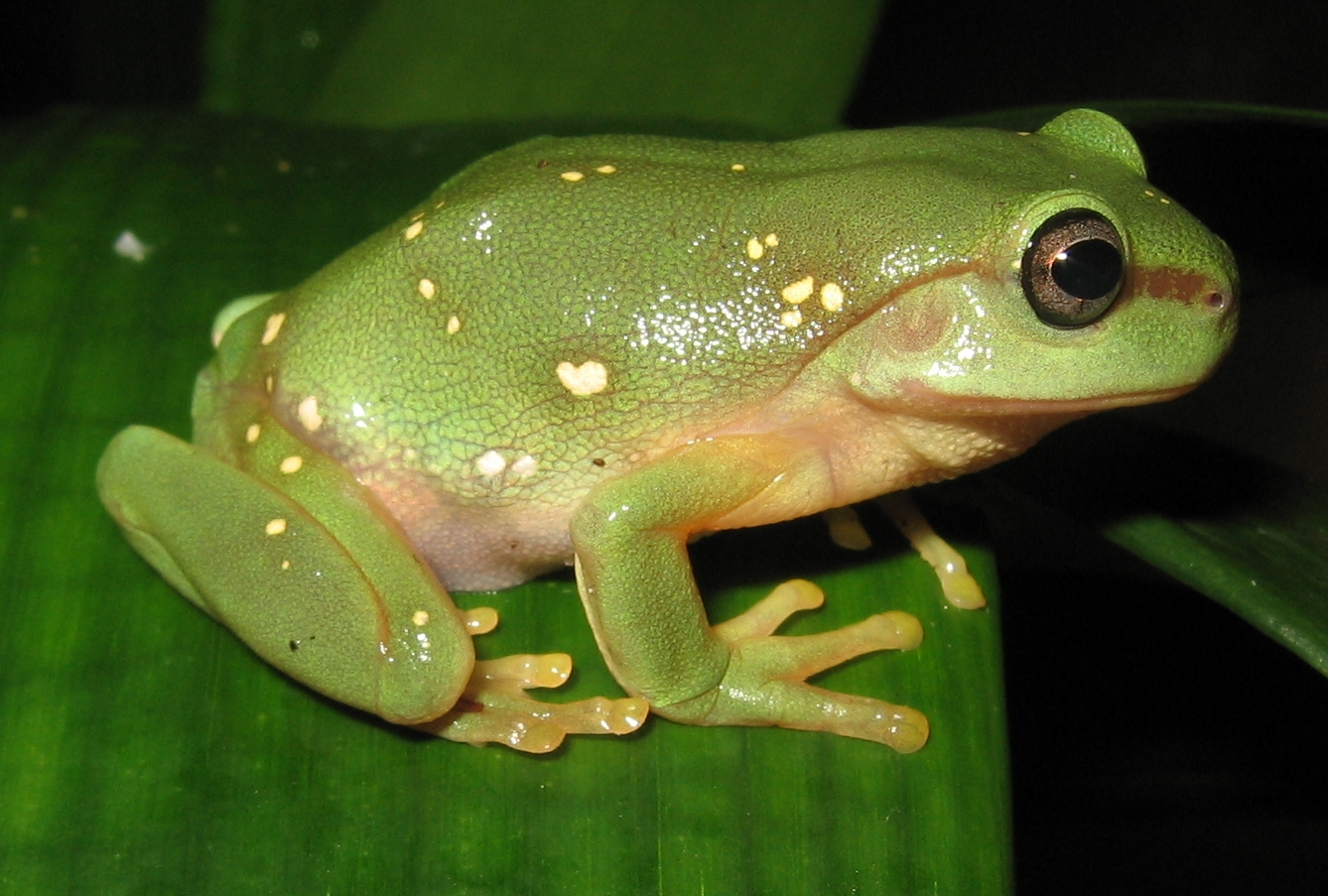 A juvenile Magnificent Tree Frog (Litoria splendida).